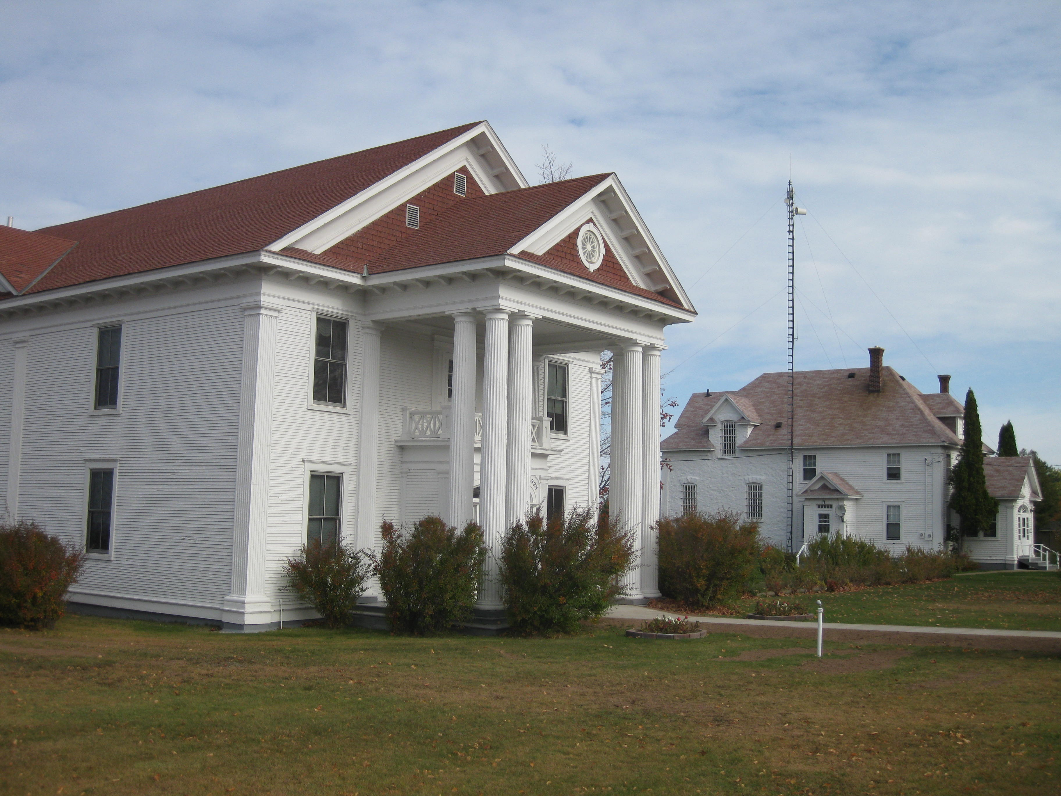 Keweenaw Court House and Jail.